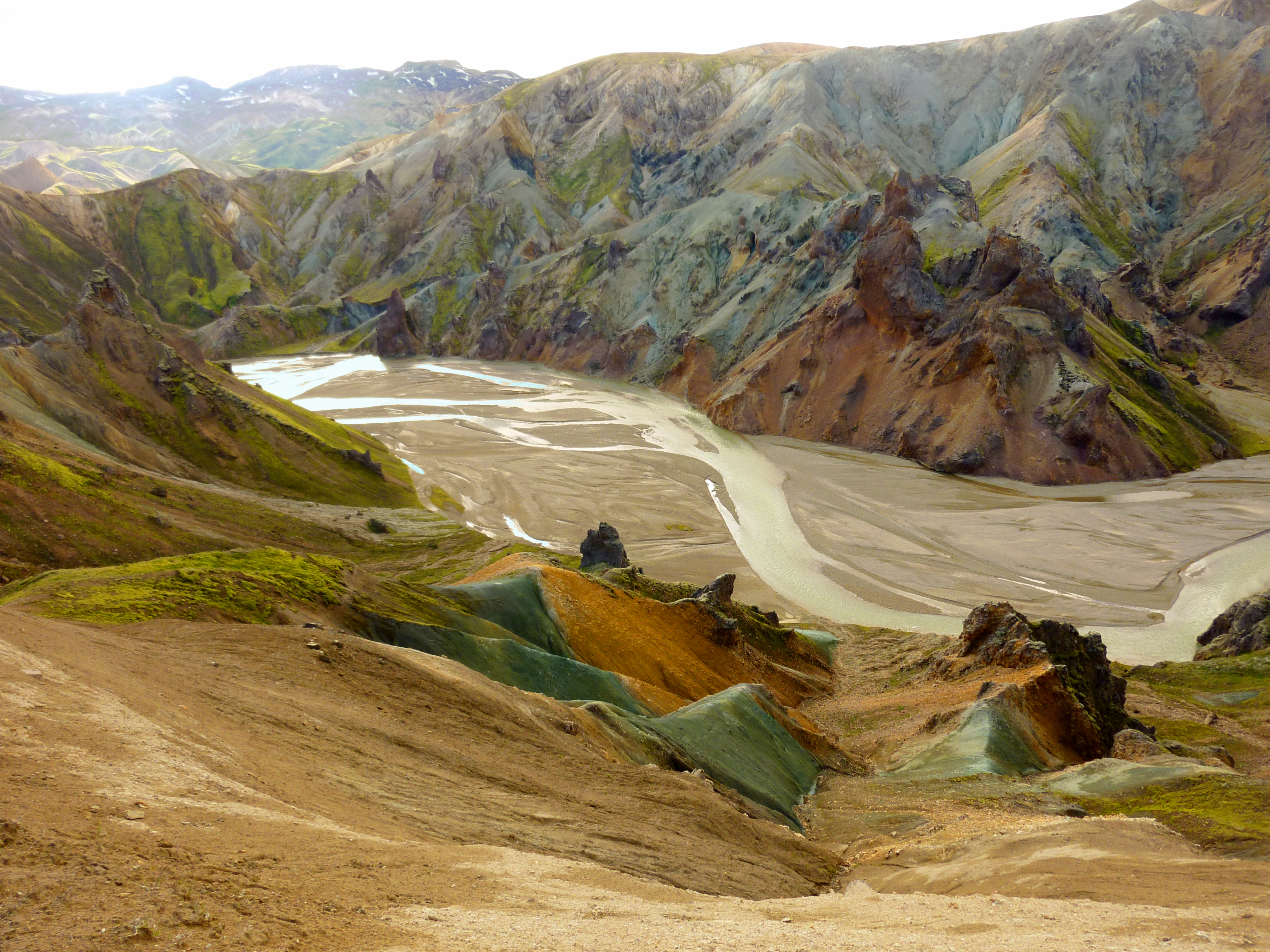 Jökulsgil Valley, seen from Þrensgli (or Thrensgli) Pass